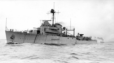 Dutch Tromp-class cruiser Tromp